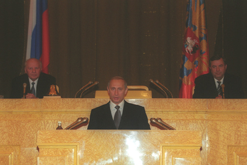 THE KREMLIN, MOSCOW. President Putin's annual State of the Nation Address.